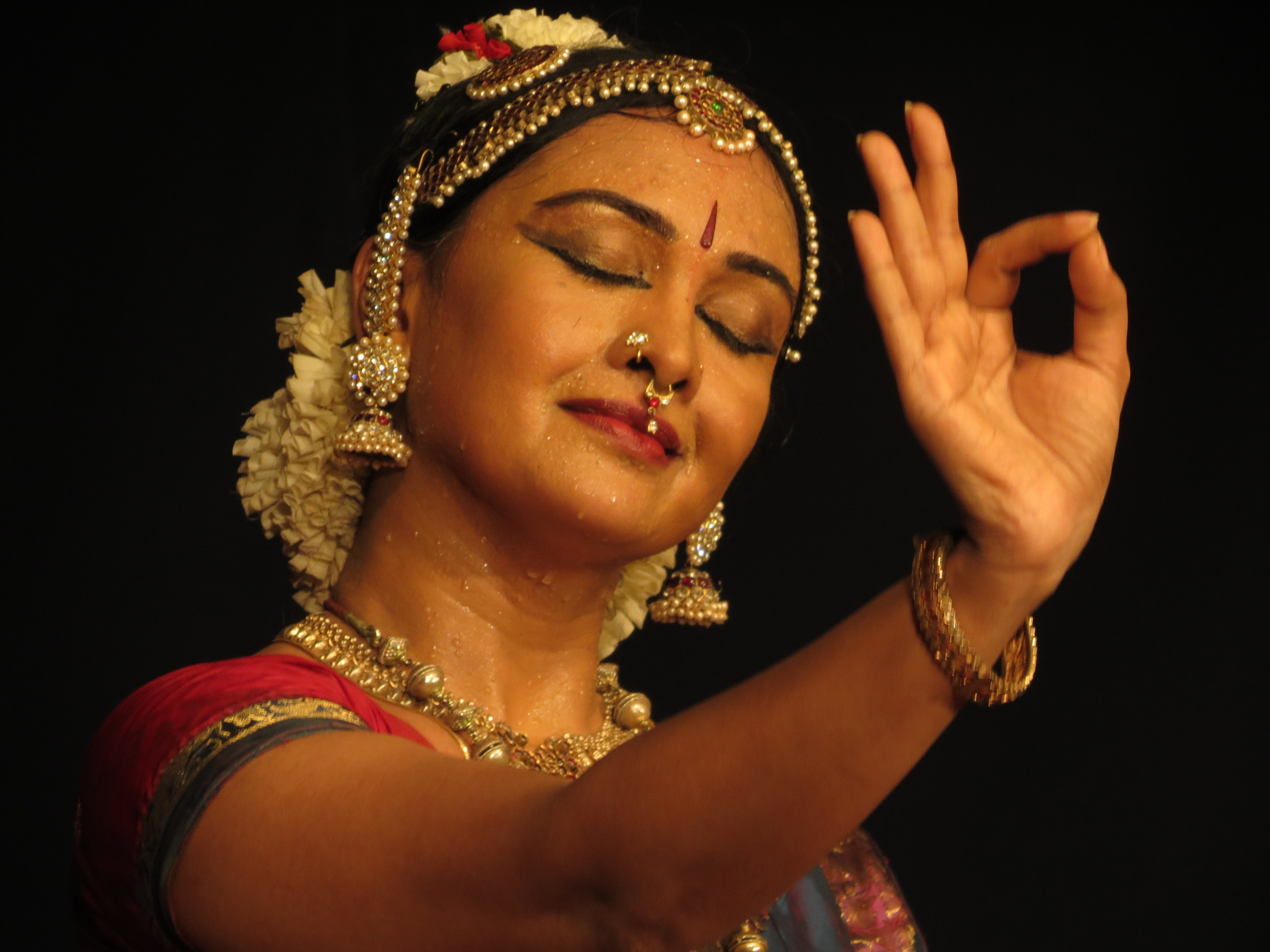 Rajashree Warrier, an eminent Bharathanatyam Exponent and Choreographer from Kerala, performing at Vaikom Mahadeva Temple. This media file is uploaded with Malayalam loves Wikimedia event - 3.